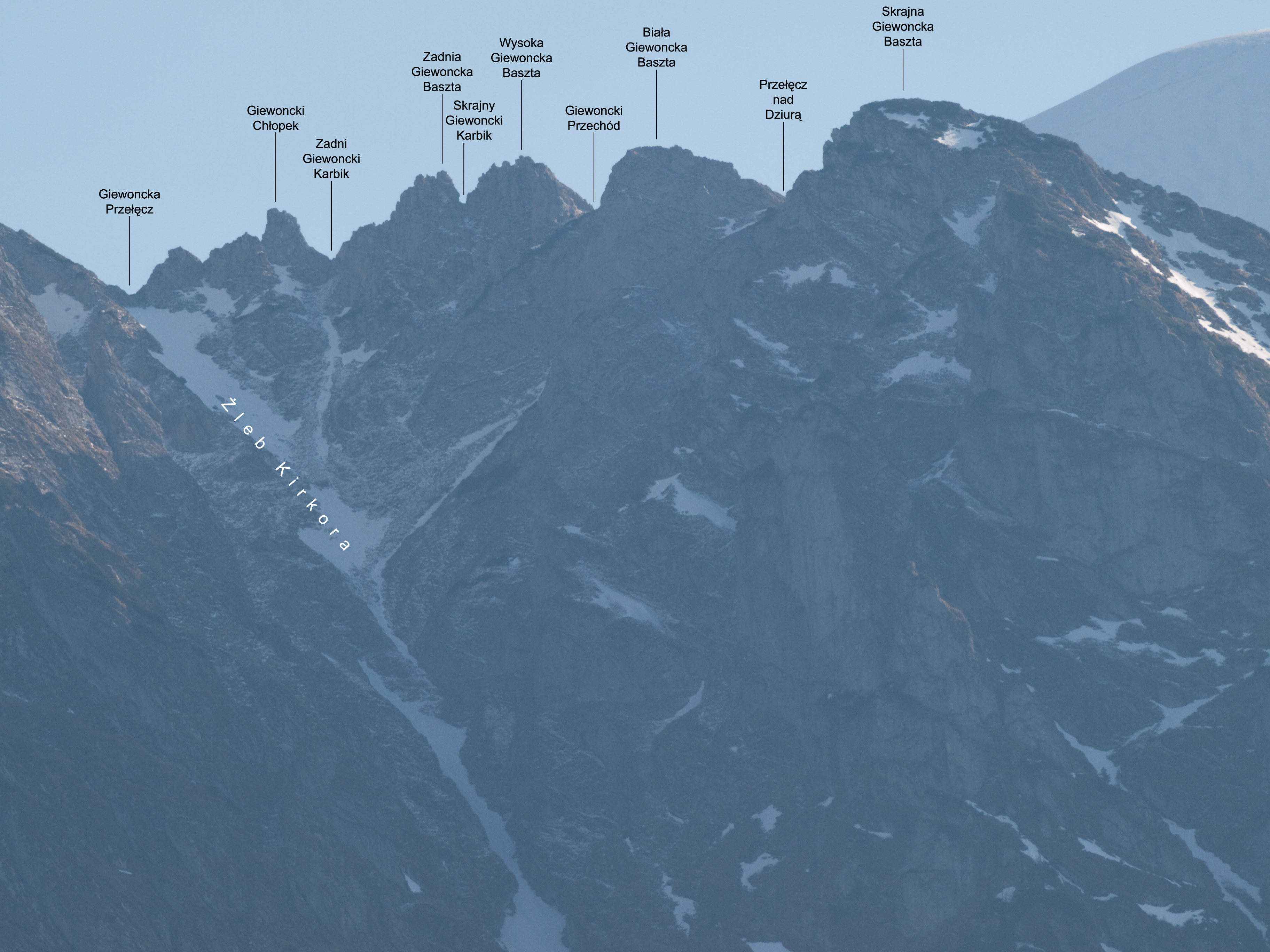 Mały Giewont – view from Zakopane (with captions).